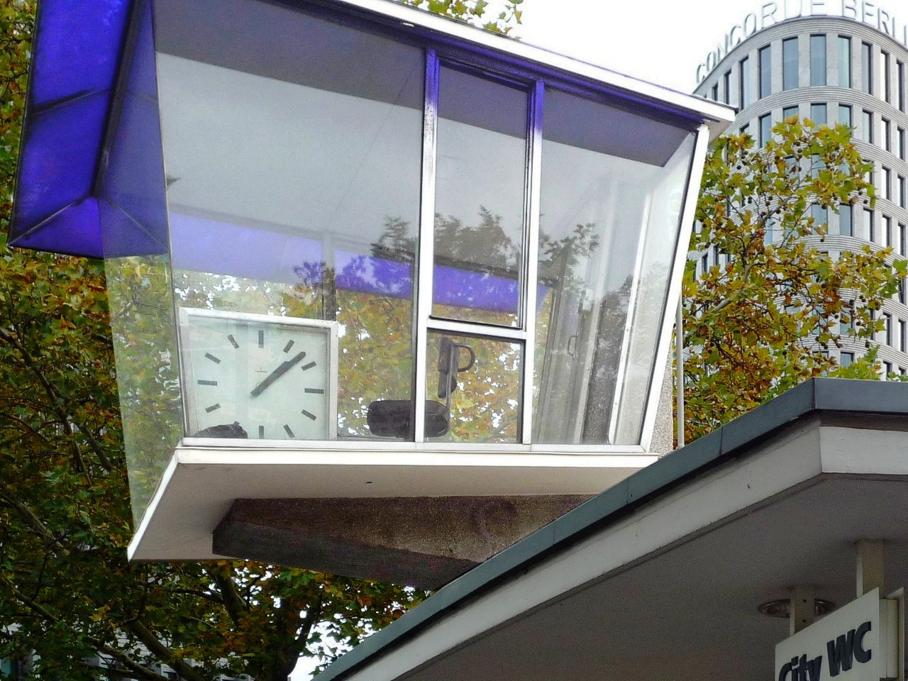 Berlin, road crossing Kurfürstendamm/Joachimstaler Straße. "Verkehrskanzel". seit 1962 außer Betrieb.